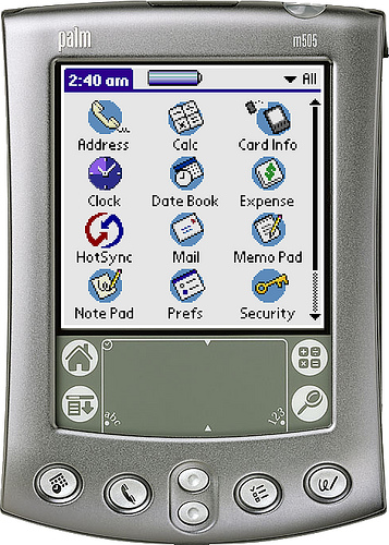 Photo Credit: D. Travis "Coplan" North, April 25, 2006.